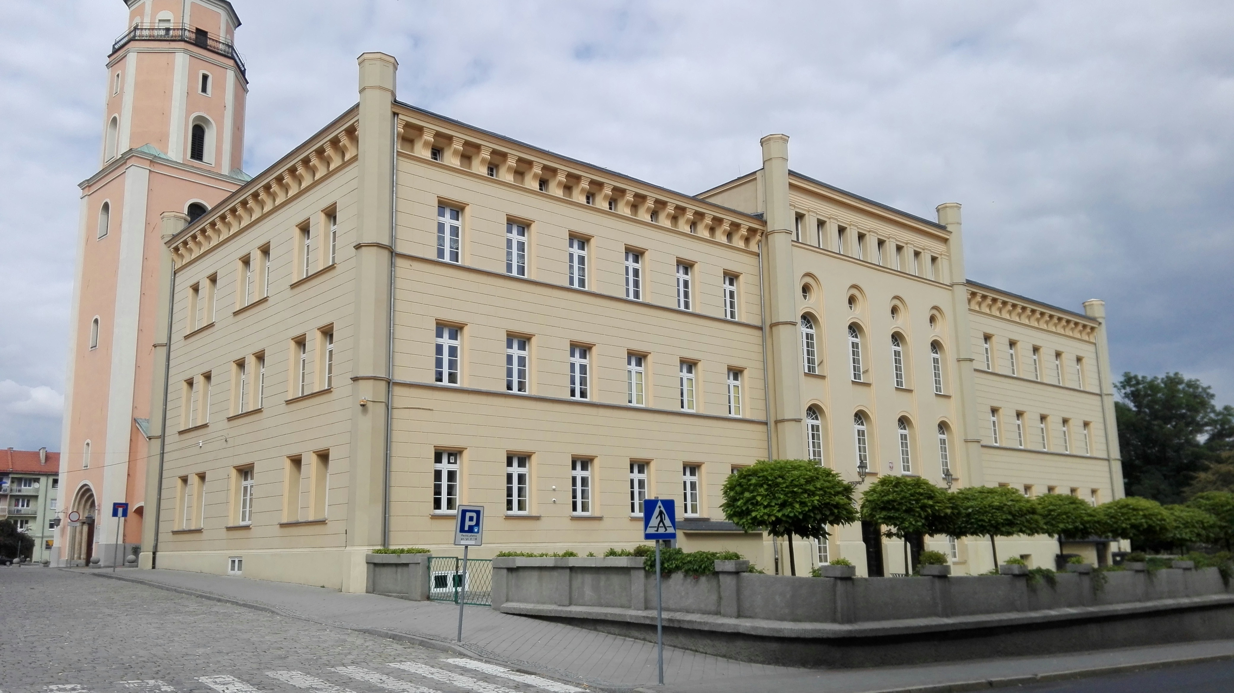 1 Armii Krajowej Street in Prudnik